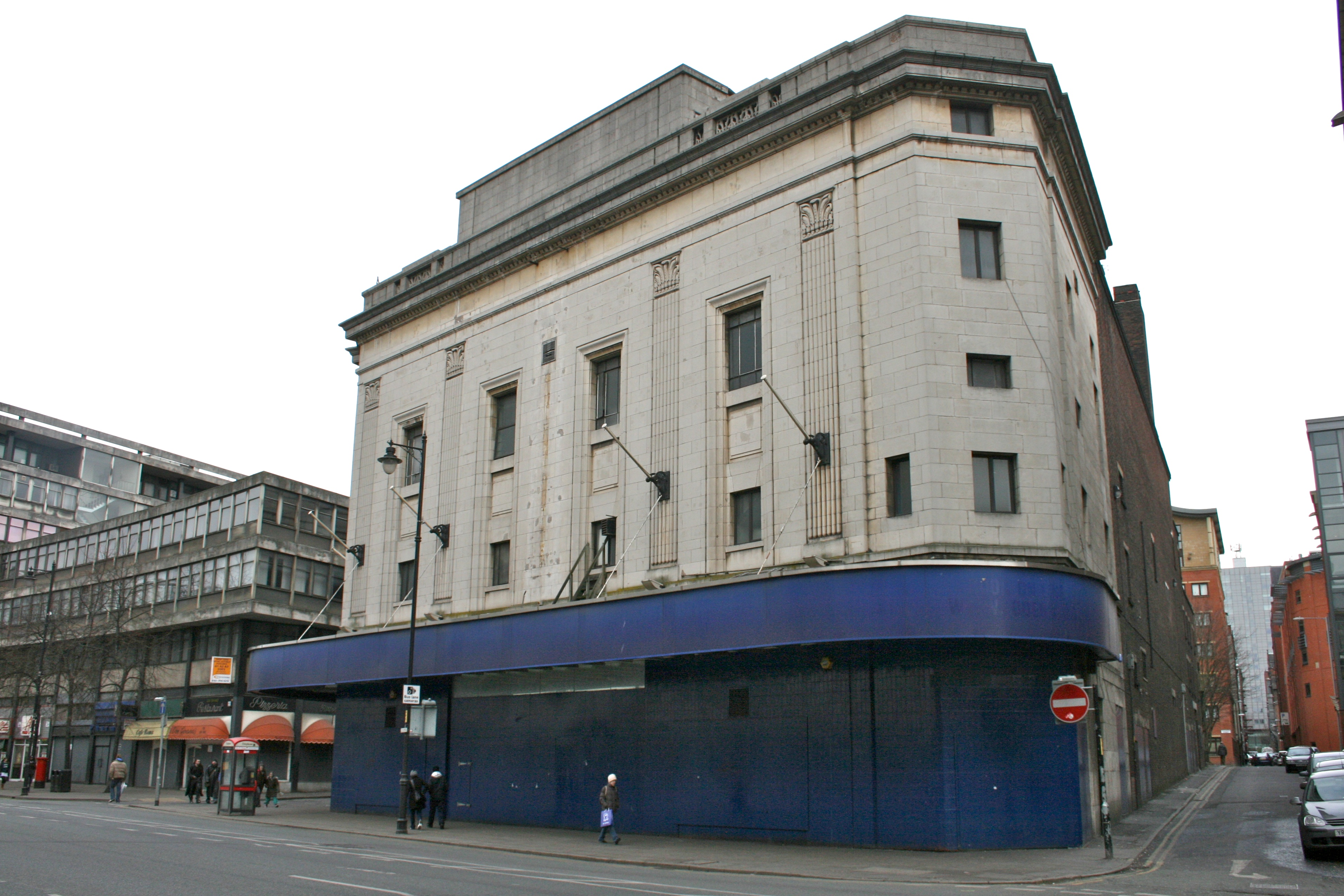 The former Odeon Cinema, on Oxford Road, Manchester.